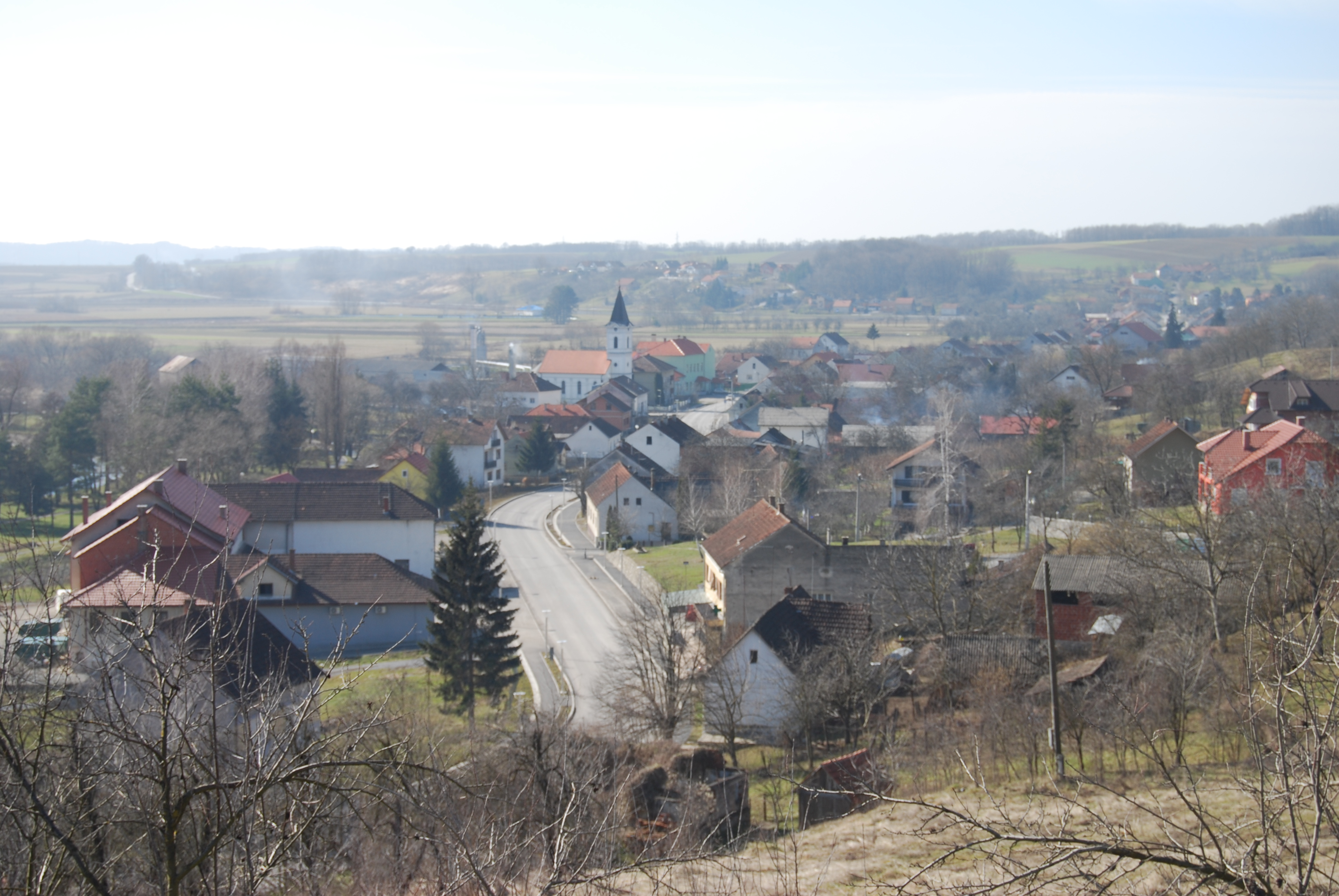 Sirač village, Croatia